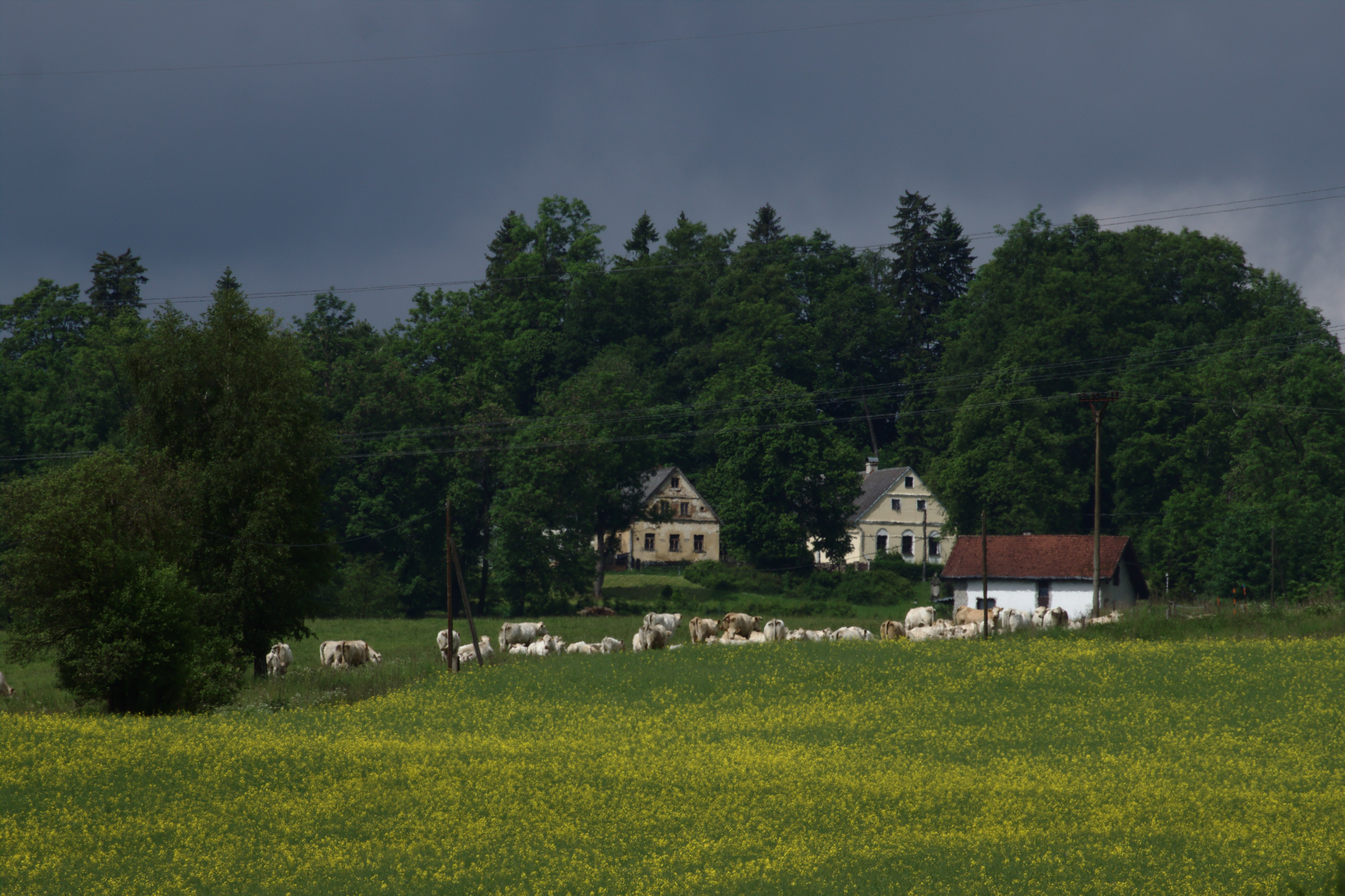 View of the Hoštec village in Karlovy Vary Region, CZ